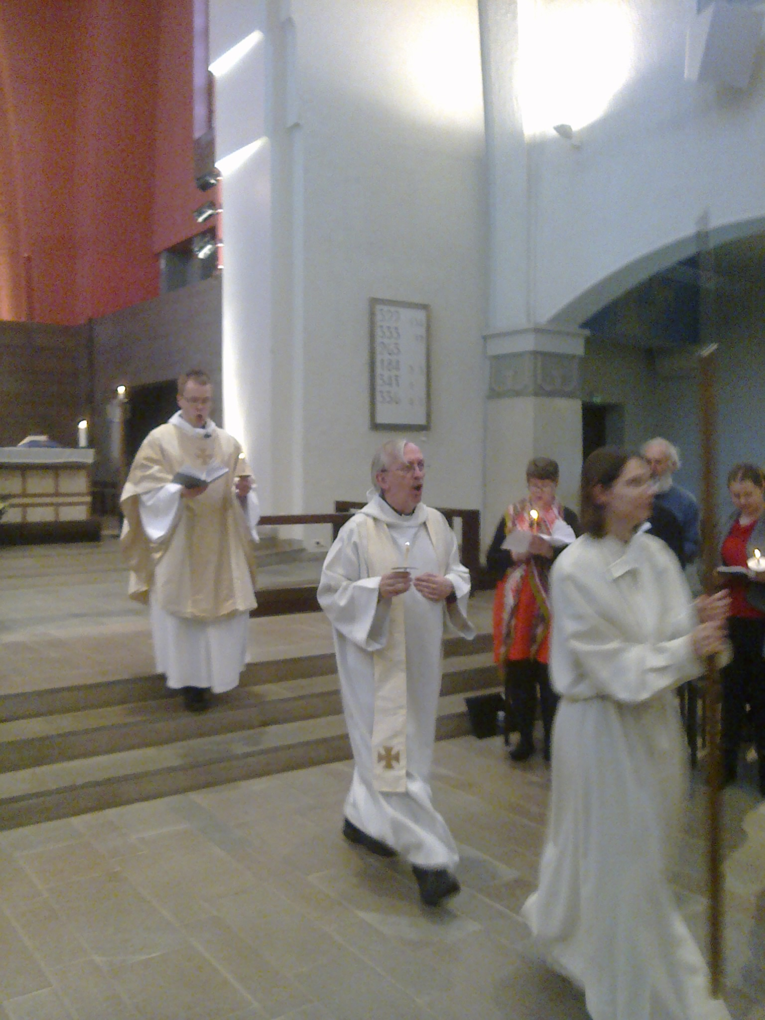 Tuomas Mäkipää (left) and Martin Dudley (centre), Mikael Agricola Church, Helsinki, Candlemas 2015.